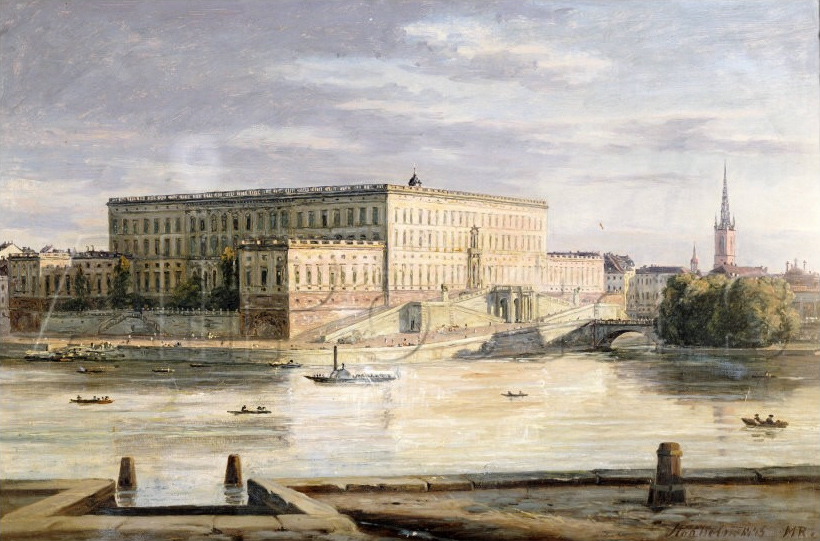 The Royal Palace, Stockholm, 1848 Martius Rorbye